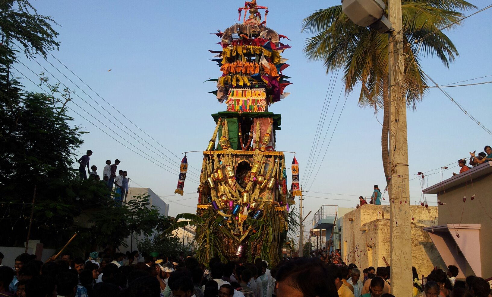 Took this photo on the occasion of Challakere Veerabhadraswamy Rathostava